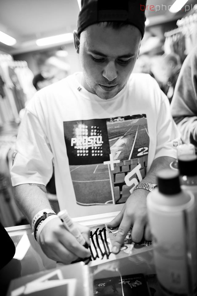 Polish rapper Diox